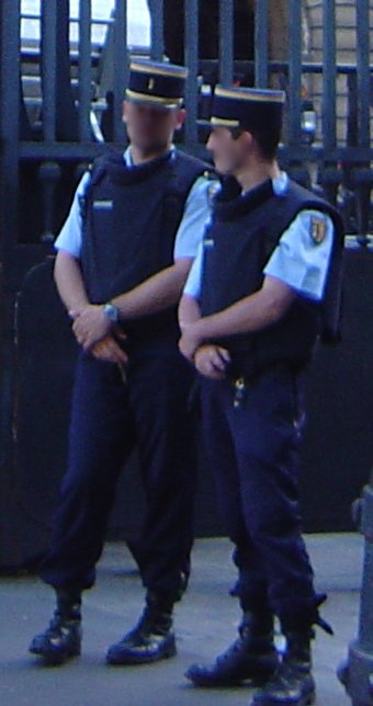 Gendarmes guarding the Paris Hall of Justice, Paris, France. - (Faces blurred; as far as I know, we're not supposed to publish close-up, recognizable, photographs of "private" people without their consent.)